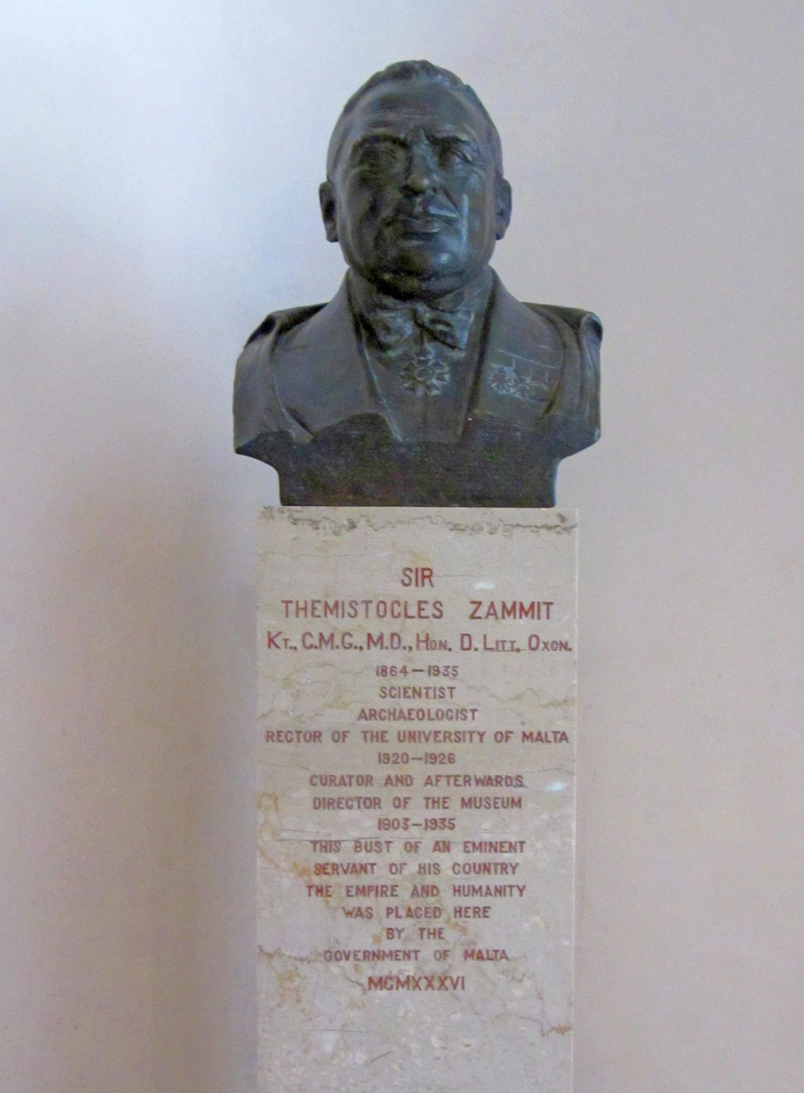 Bust of Themistocles Żammit in the Malta National Museum of Archaeology, Valletta